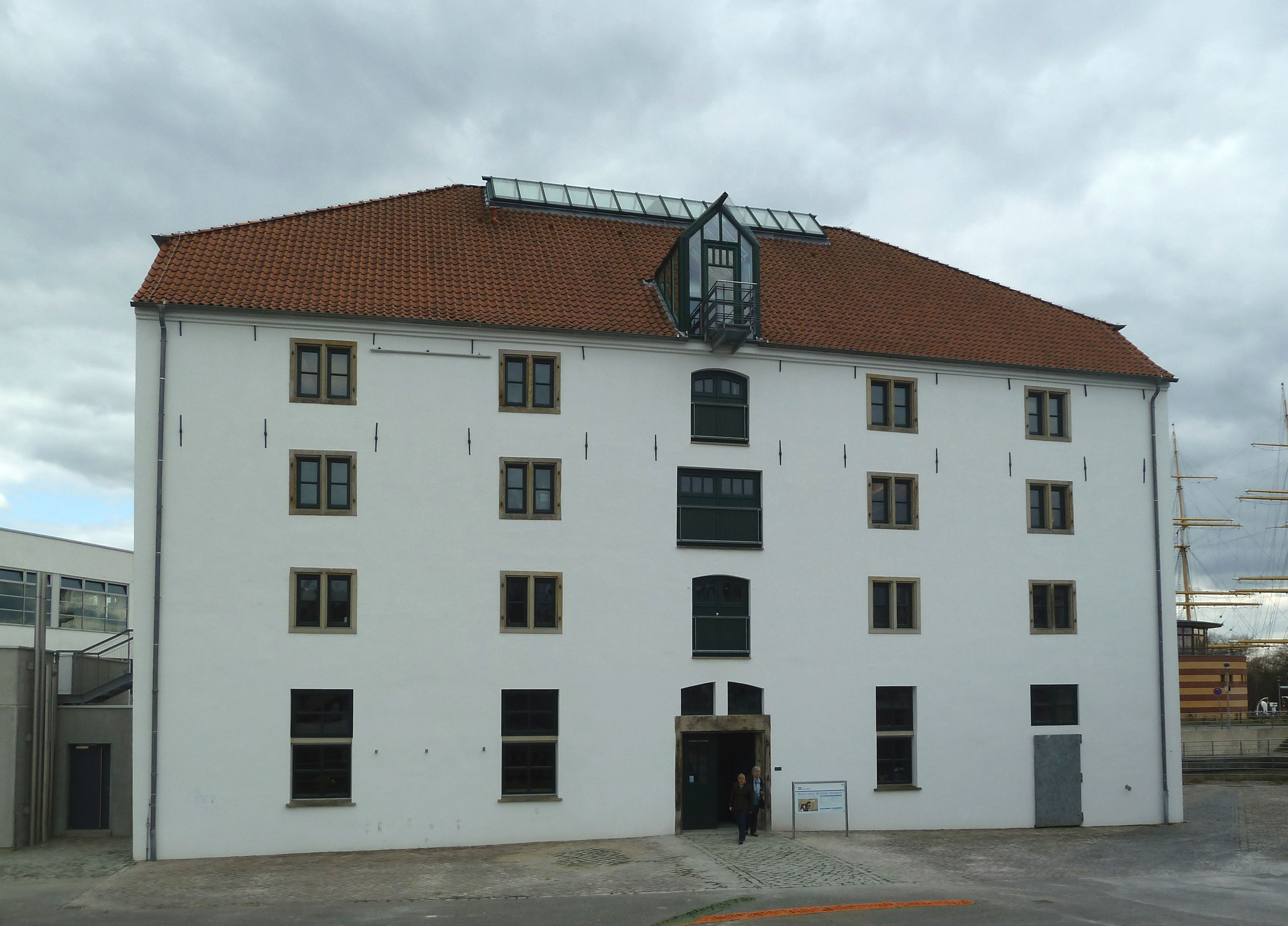 Vegesack harbour - old storehouse